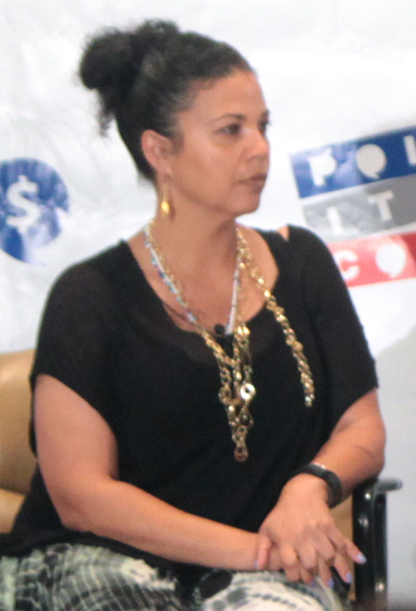 Jody Armour, Melina Abdullah, Lisa Hines, Jasmine Abdullah Richards and Melissa Harris-Perry speaking at the 2016 Politicon at the Pasadena Convention Center in Pasadena, California.